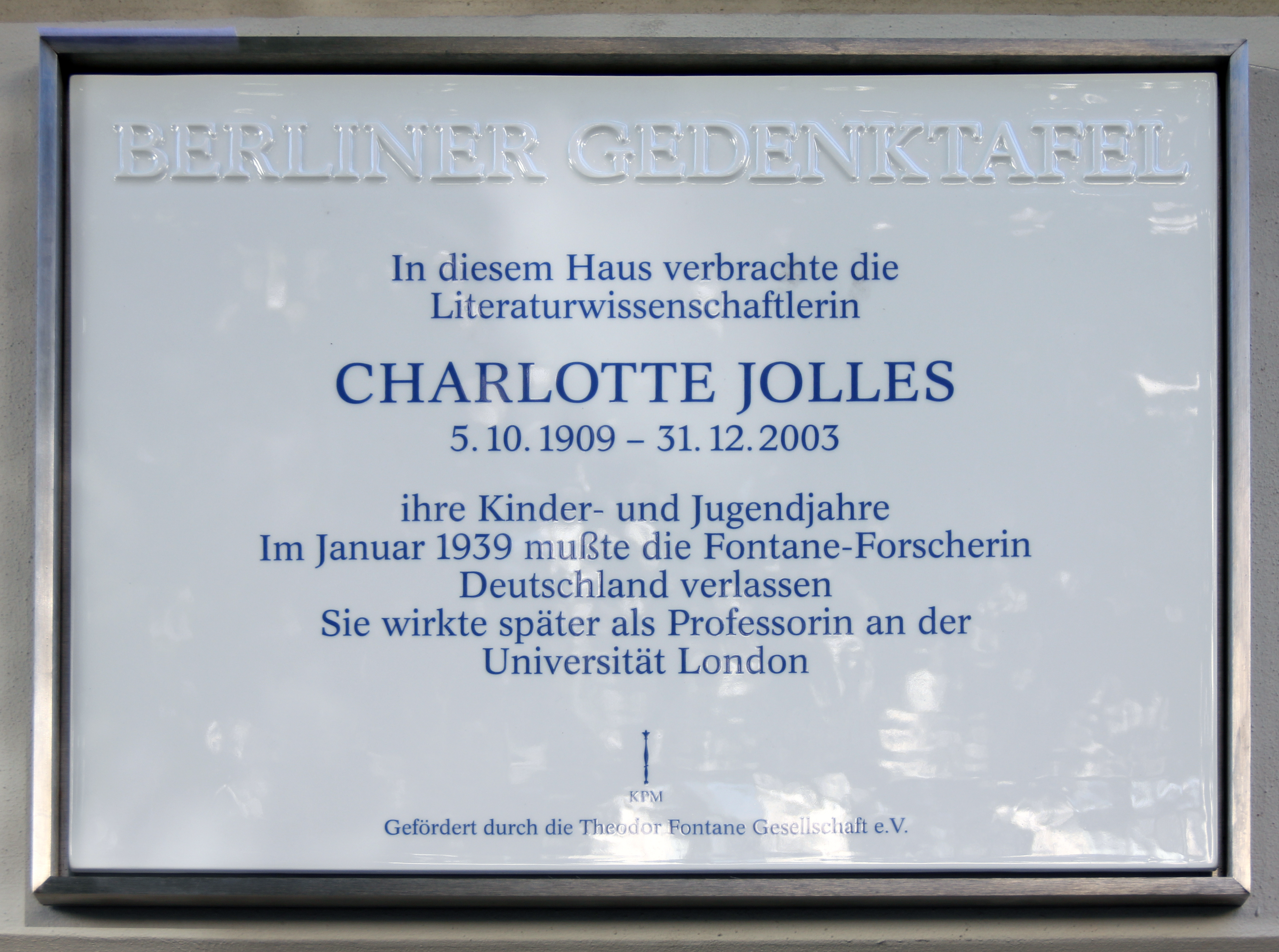 Berlin memorial plaque, Charlotte Jolles, Großbeerenstraße 82, Berlin-Kreuzberg, Germany